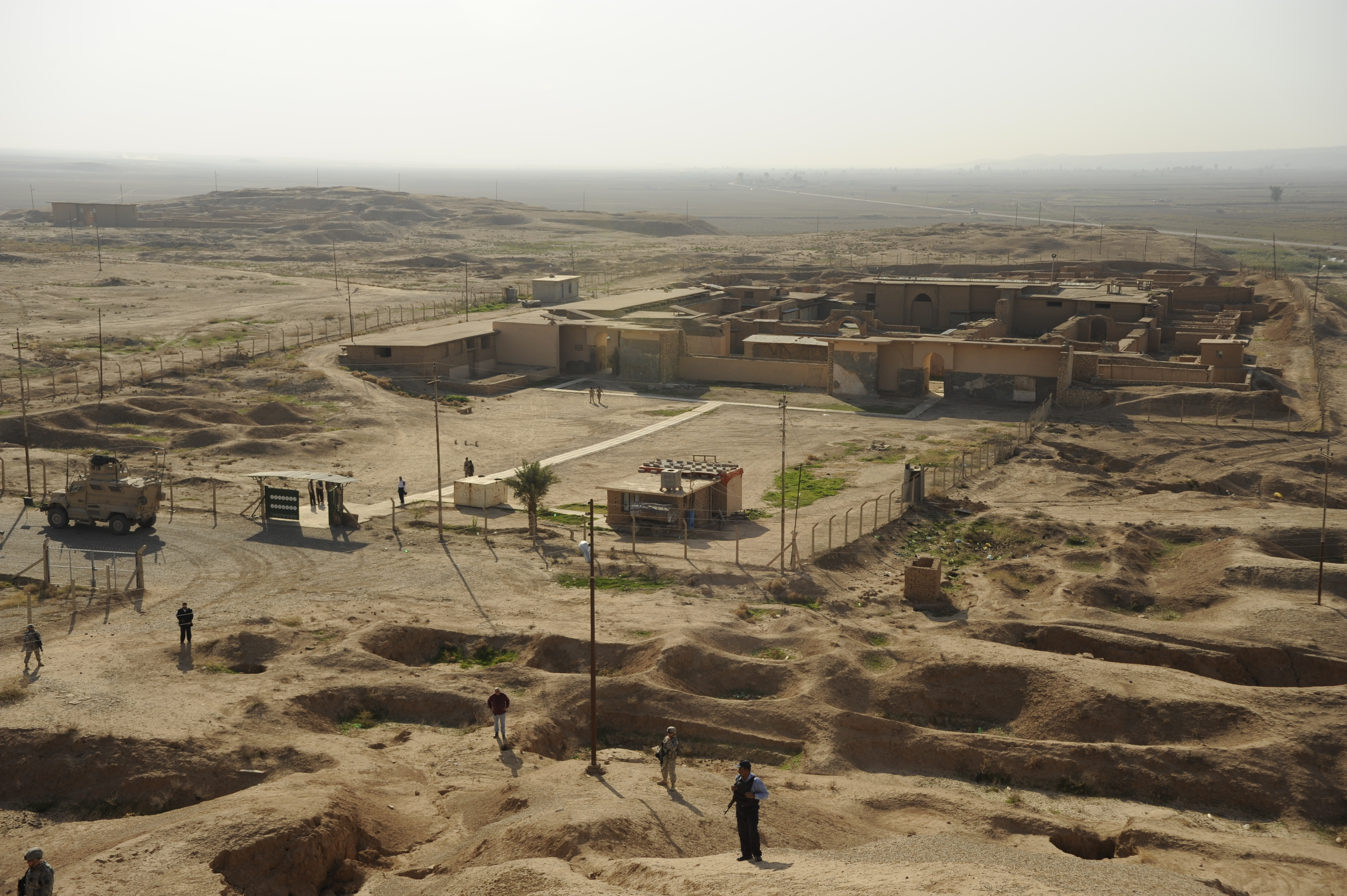 An overall view of the Northwest Palace in the ancient city of Calah, which is now known as Nimrud, Iraq, Nov. 19. Nimrud is in consideration by United Nations Educational, Scientific, and Cultural Organization to become a protected World Heritage site. UNESCO works to create the conditions for genuine dialogue based upon respect for shared values and the dignity of each civilization and culture.